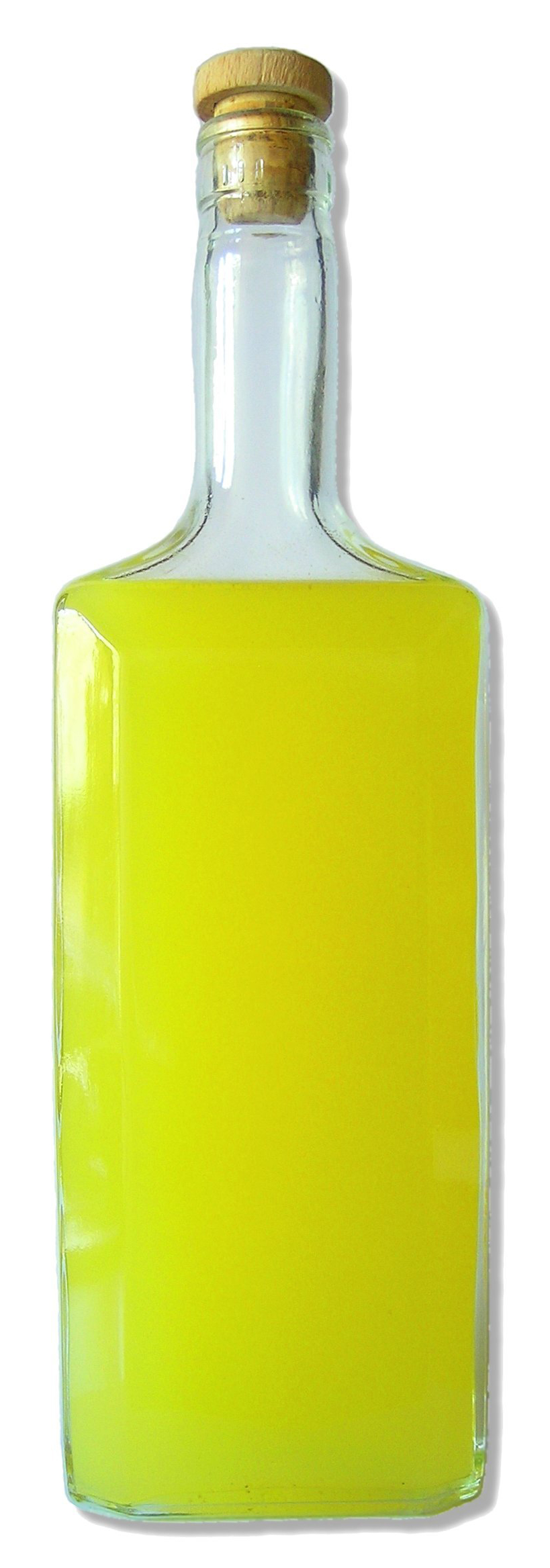 a bottle of home-made Limoncello (made by me)